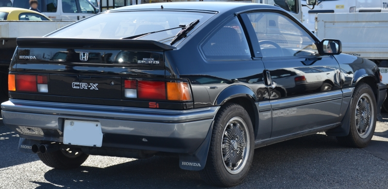 Honda Ballade Sports CR-X Si